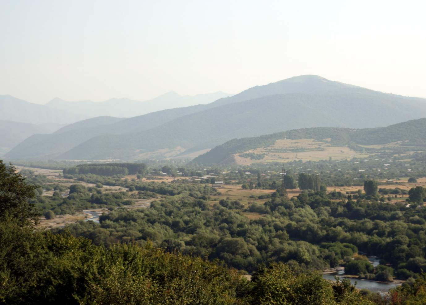 Tianeti, Georgia